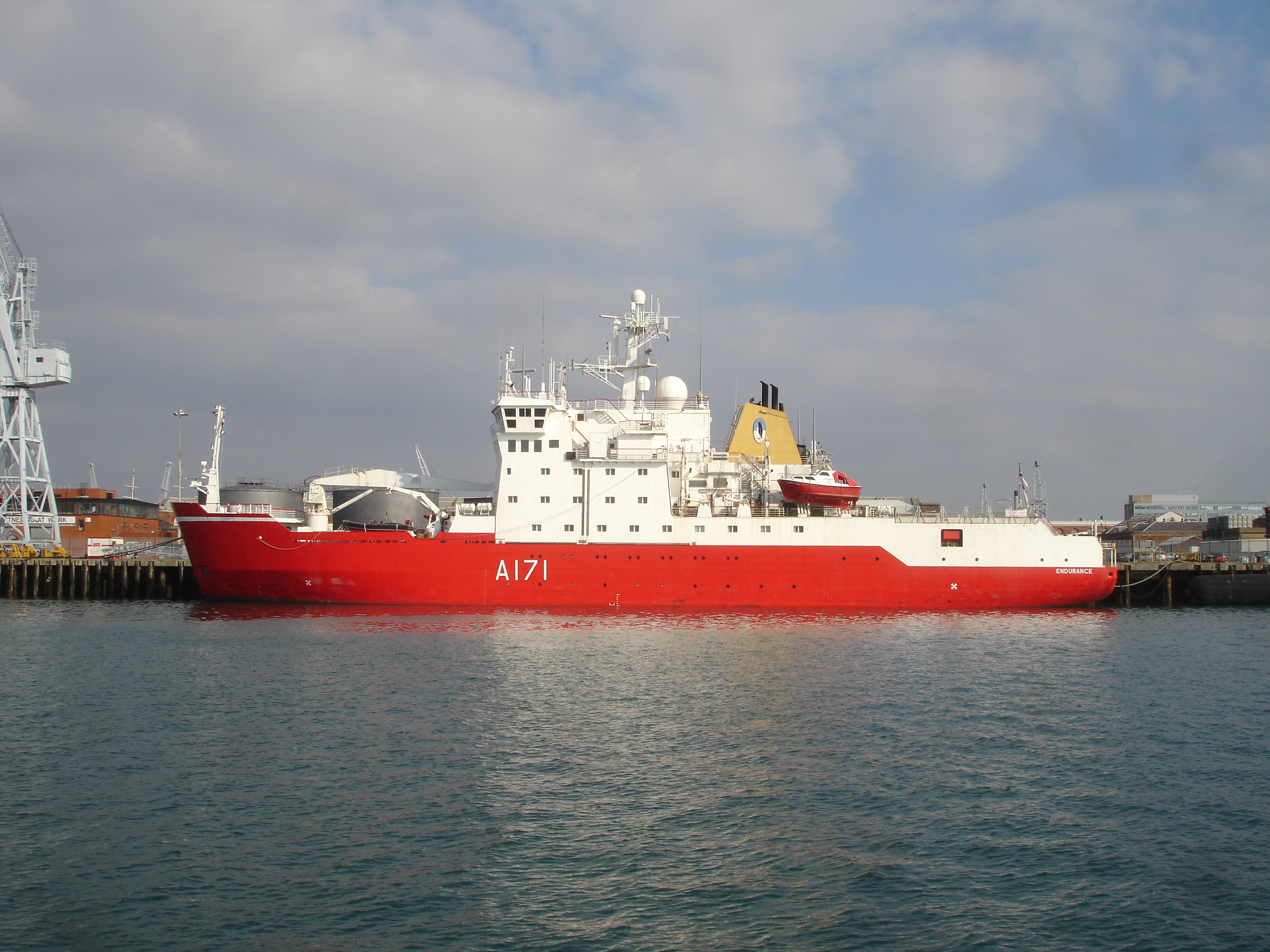 HMS Endurance (A171) in Portsmouth